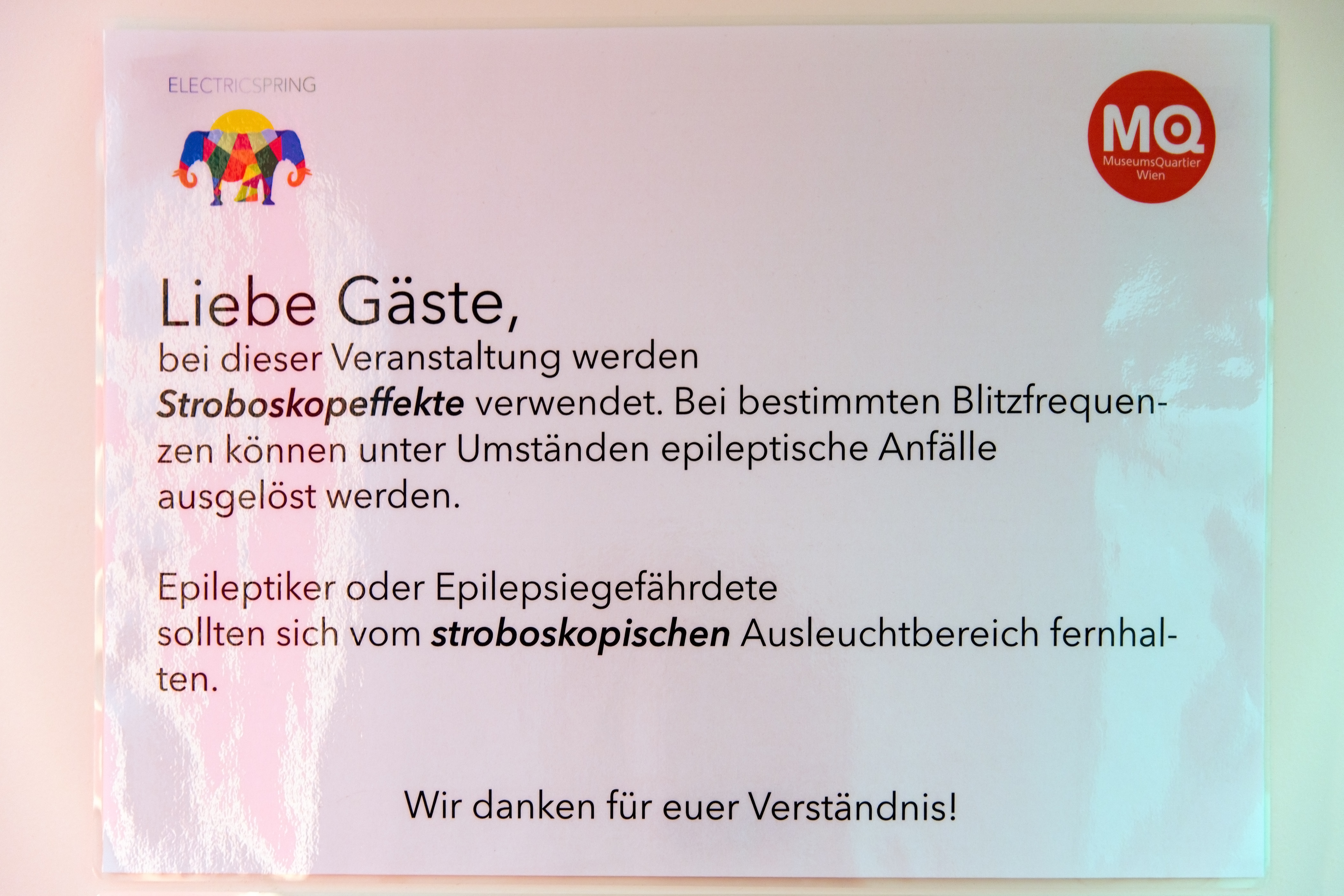 Music festival Electric Spring 2016 at Museumsquartier in Vienna, Austria.